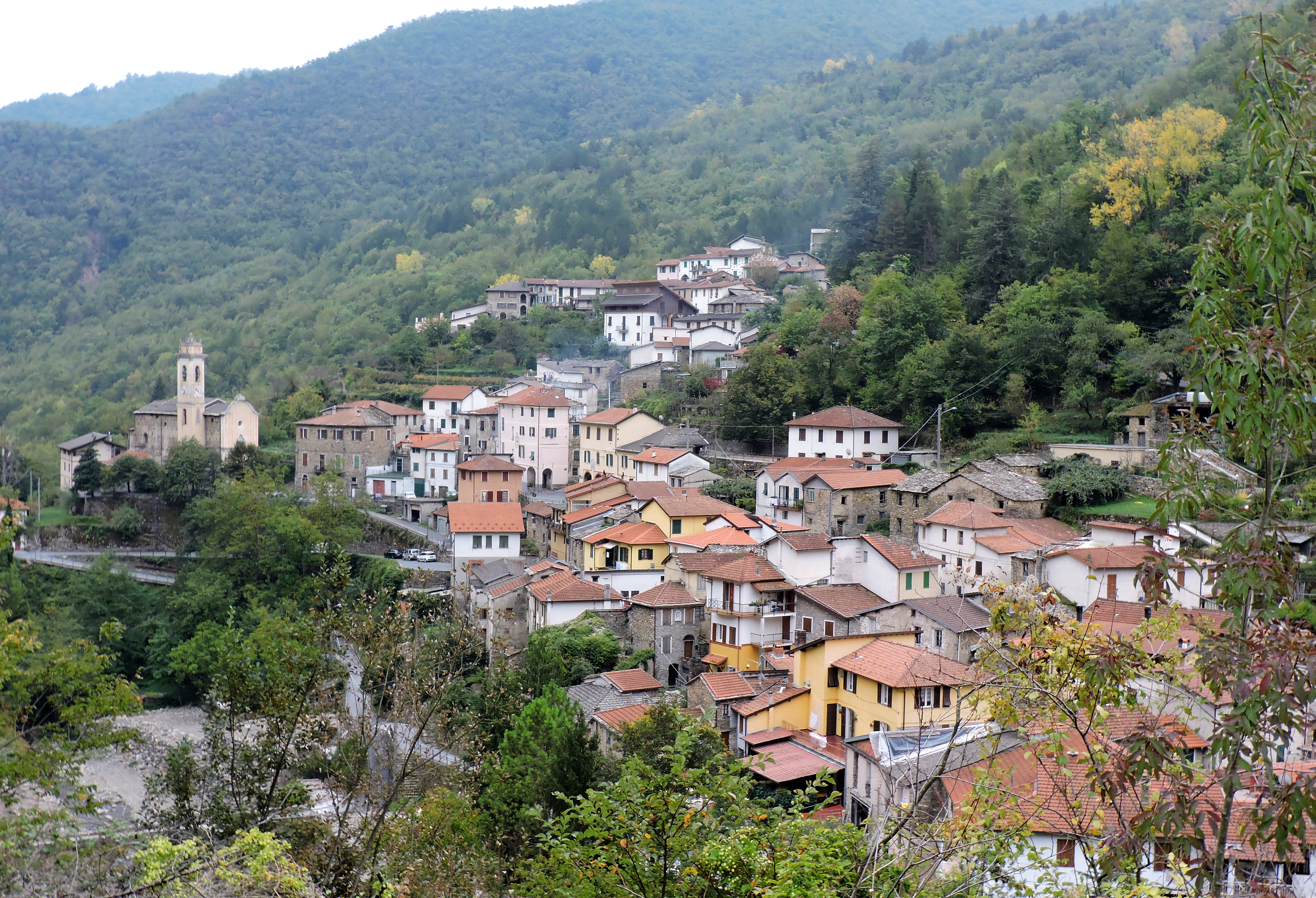 Lavina (Rezzo, IM, Italy) from provincial road nr.17